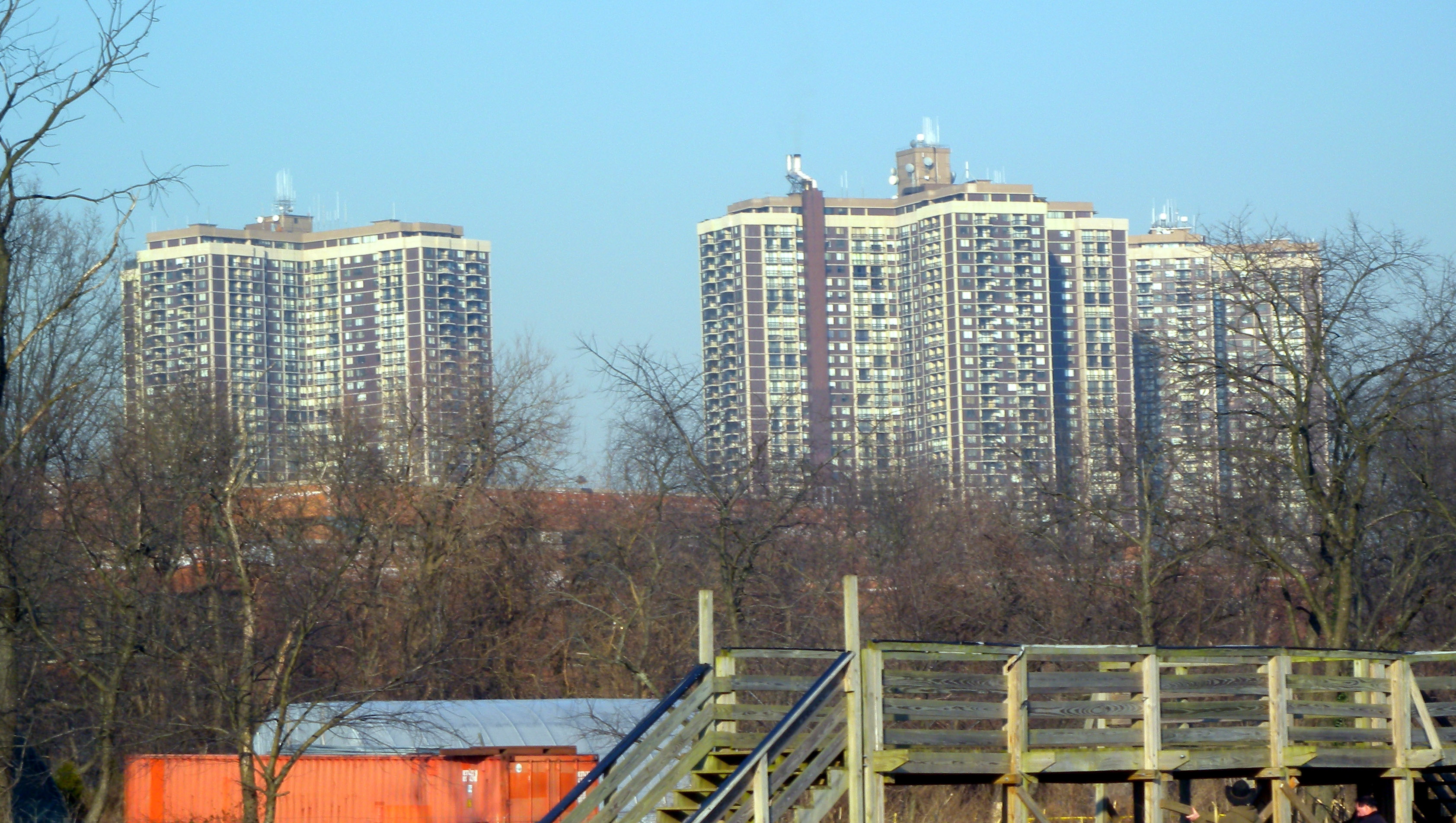 Looking northeast, full zoom, at North Shore Towers from QCFL on a sunny late afternoon.